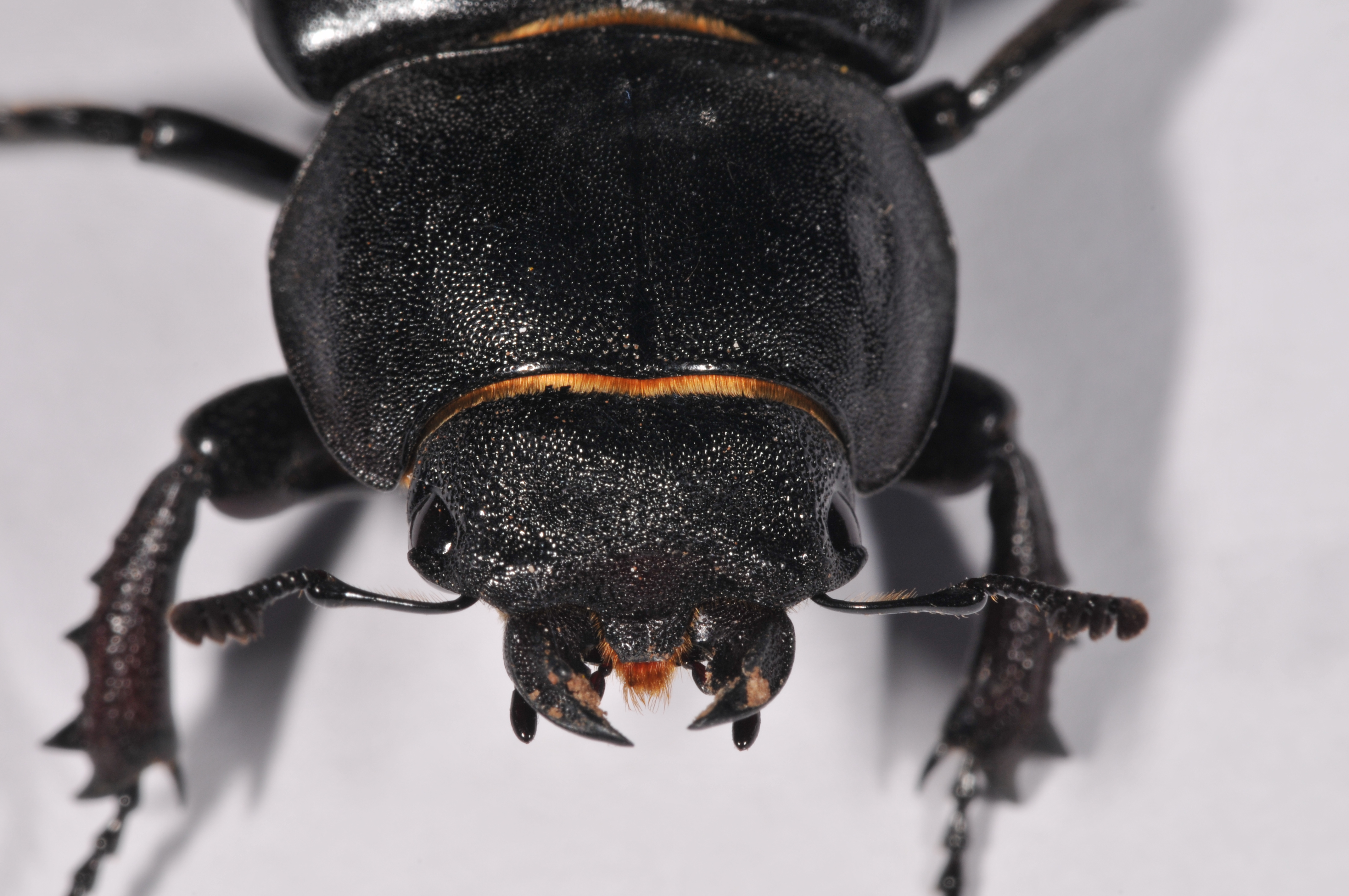 Lucanus cervus, Croatia, Istria, Brseč 15 km south Lovran, 45°10`23,80``N 14°13`37,25``E